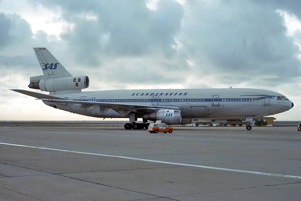 Scandinavian Airlines (SAS) McDonnell Douglas DC-10-30 LN-RKB at Faro Airport